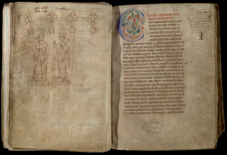 Two pages of Liber Eliensis MS O.2.1 (E)